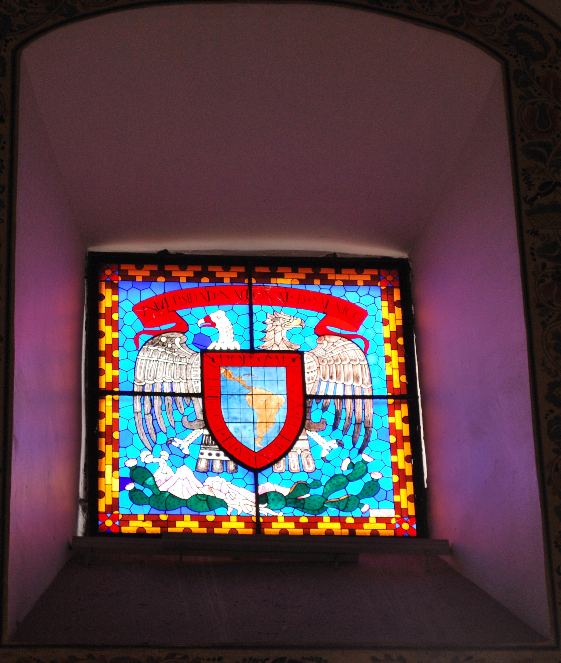 Seal of the National Autonomous University of Mexico as a stained glass window designed by Roberto Montenegro and Xavier Guerrero in the 1920s at the Museo de la Luz in the historic center of Mexico City